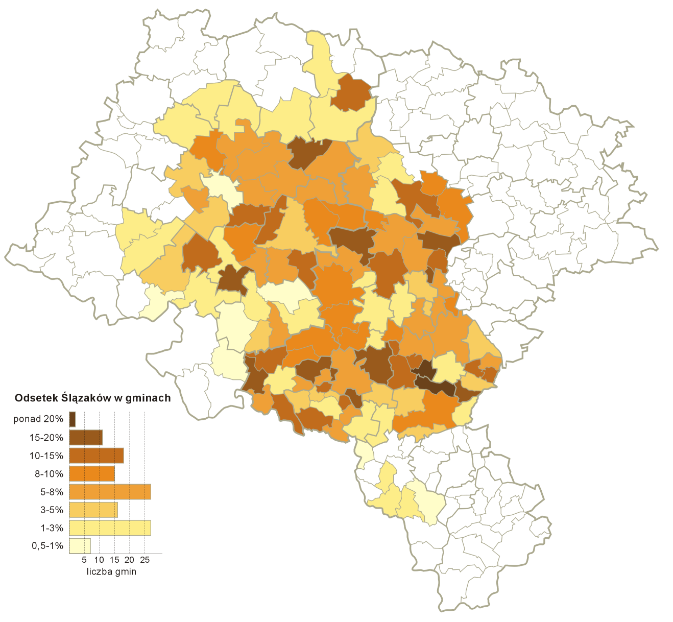 Silesian nationality in communes of Opole Voivodeship and Silesian Voivodeship as declared in the Polish national census in 2002